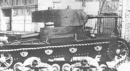 T-26 light tank with applique armour